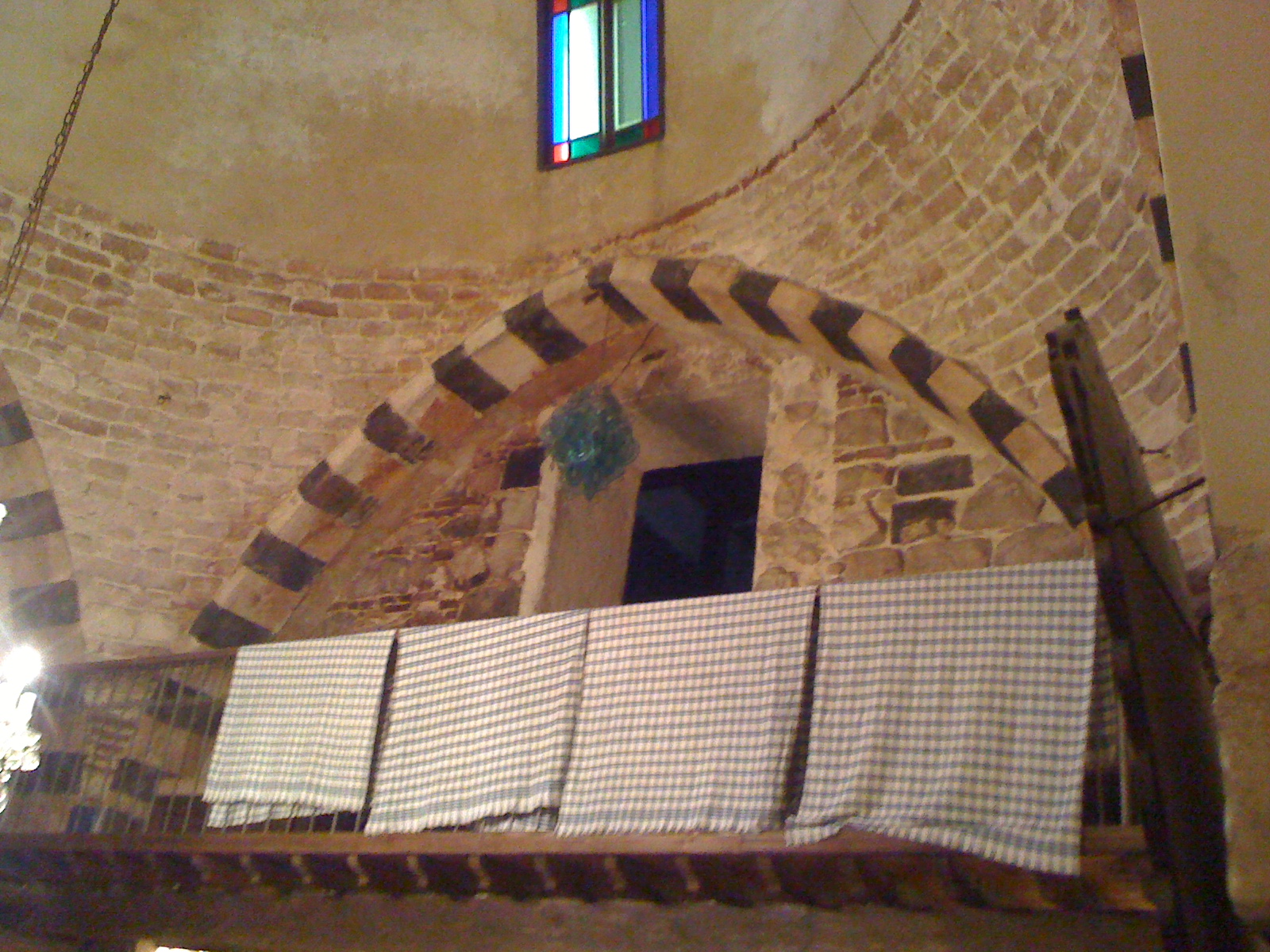 pools market in Damascus